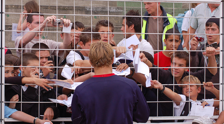 Jonny Wilkinson signing autographys